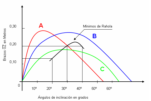 ship stability, safe criteria of Rahola